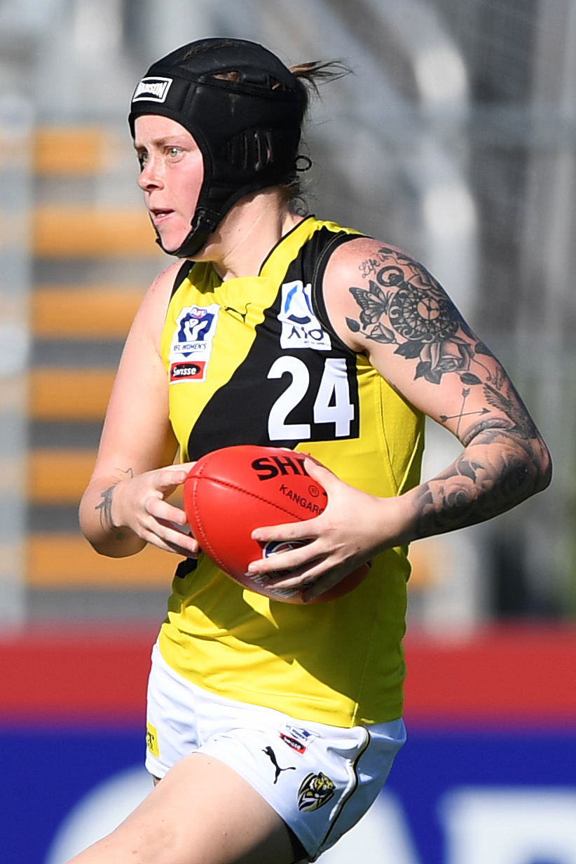 Tayla Stahl of Richmond during the 2019 VFLW Round 6 match between NT Thunder and Richmond at TIO Stadium on 15 June 2019 in Darwin, Australia.